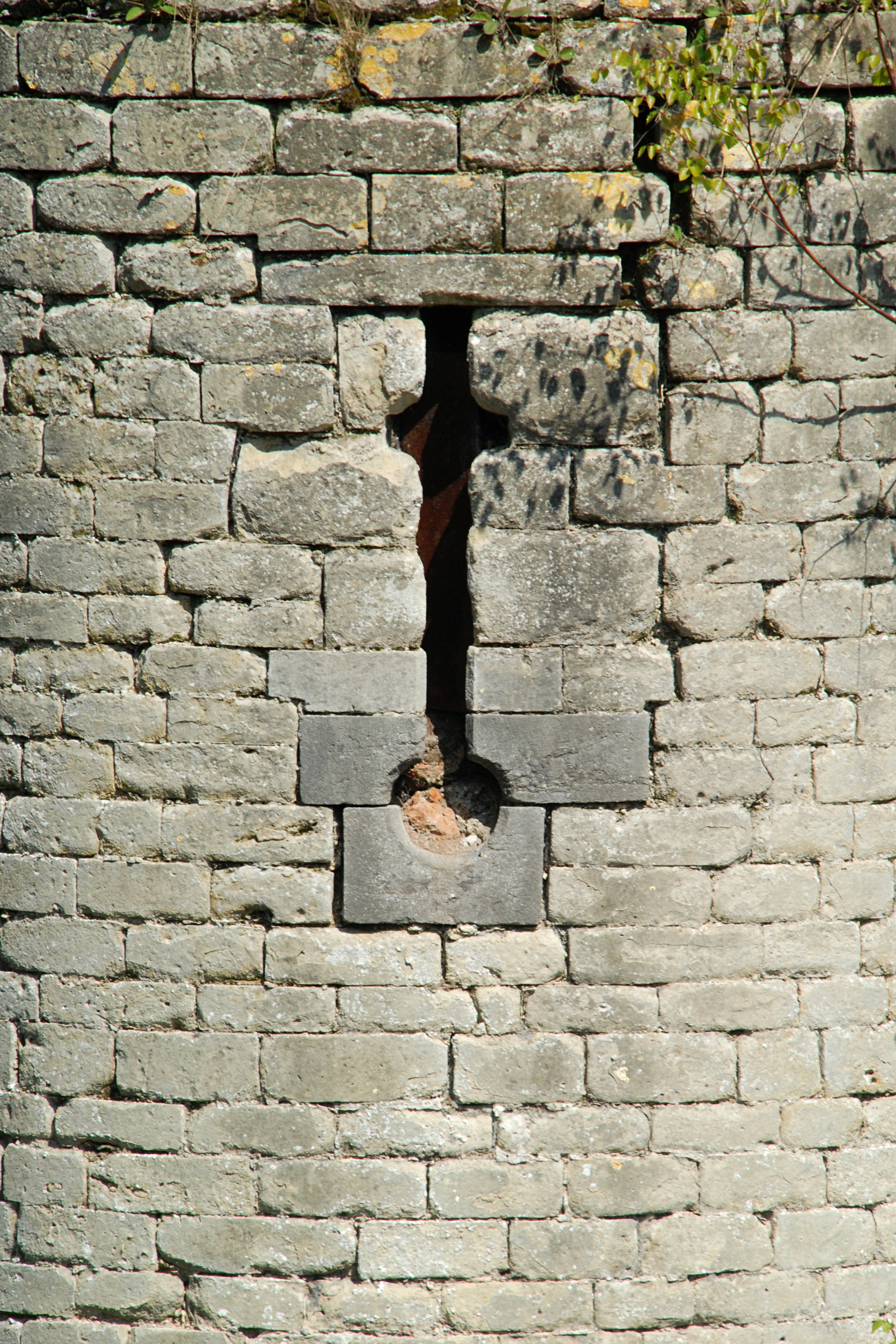 Belgium - Leuven - great lock